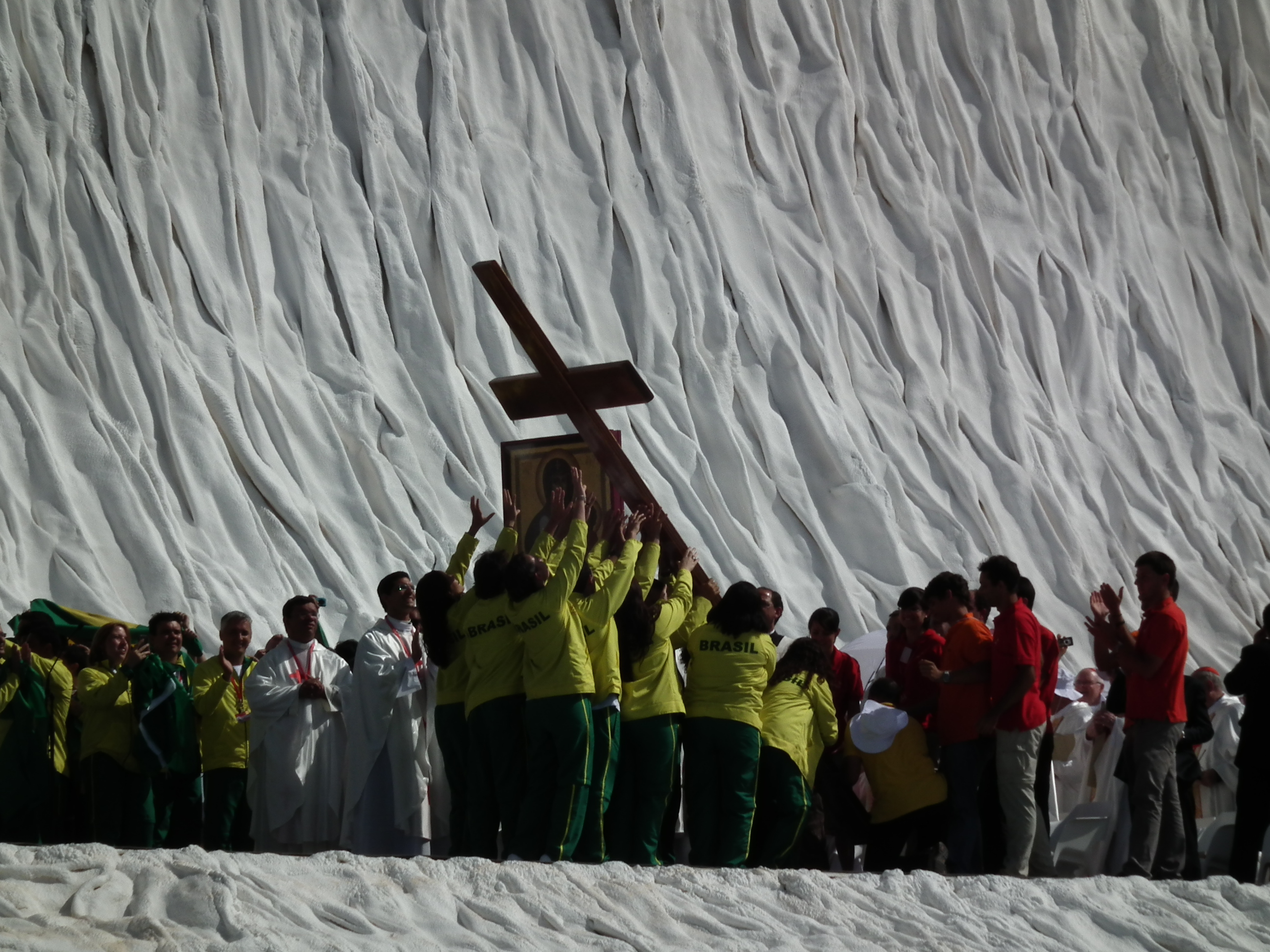 Youth belonging to the diocese of Rio de Janeiro (Brazil), receiving the Cross and Icon of WYD in the World Youth Day 2011 in Madrid.